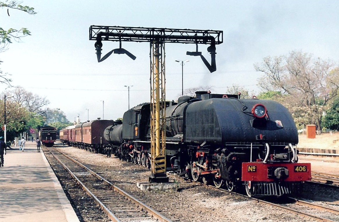 NRZ 15th class Garratt No 406 Ikolo (Hornbill) with a passenger train at Victoria Falls, Zimbabwe. (At left: Zambia Railways 12th class 4-8-2 No 204, with a Victoria Falls Safari Express train.)